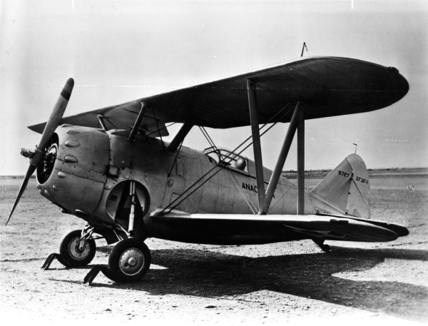 PictionID:40961623 - Catalog:Array - Title:Array - Filename:16_000104 Grumman XF3F-1 9727 Anacostia.tif - - - Ray Wagner was Archivist at the San Diego Air and Space Museum for several years and is an author of several books on aviation --- ---Please Tag these images so that the information can be permanently stored with the digital file.---Repository: San Diego Air and Space Museum